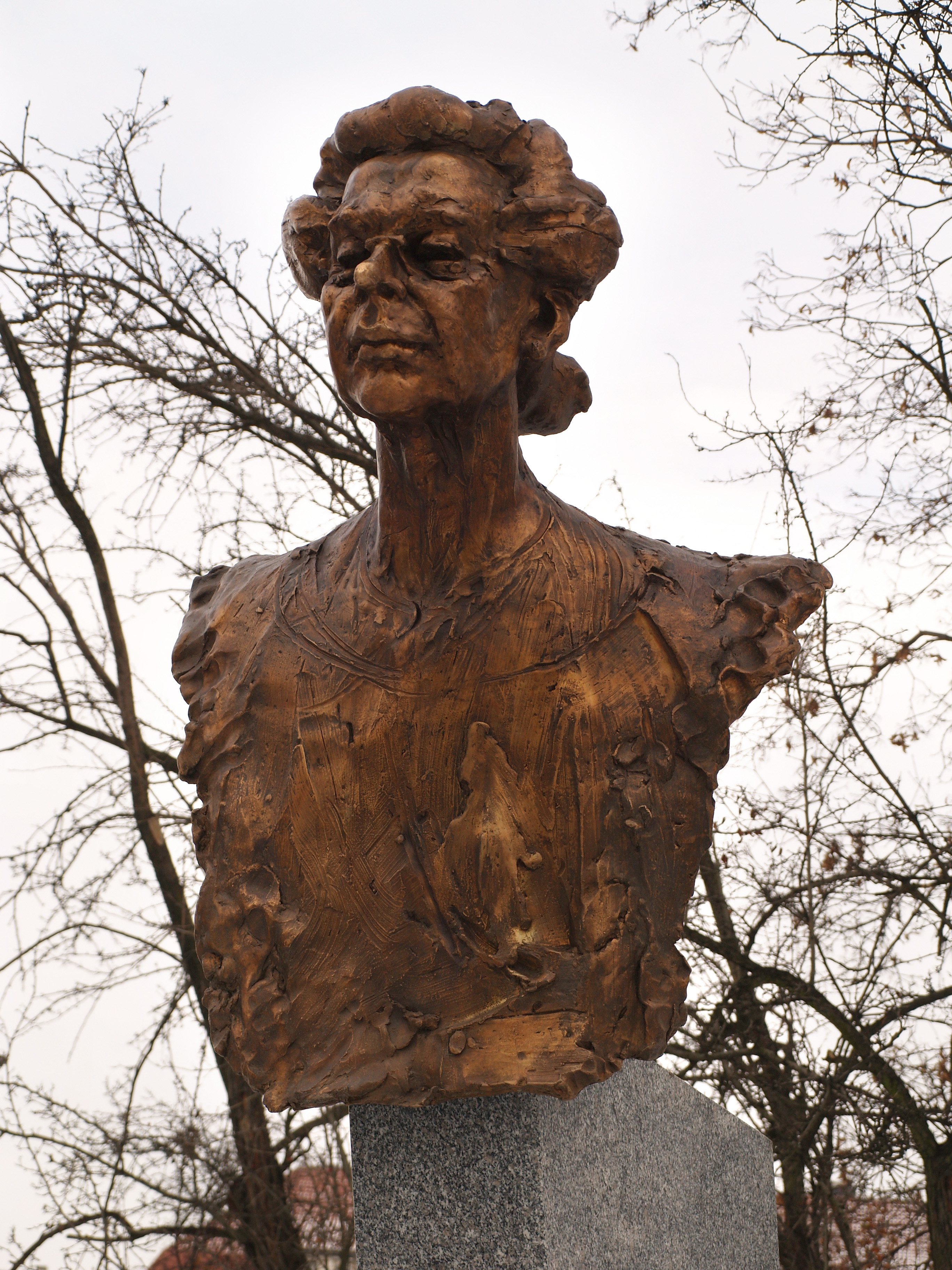 Memorial of Czech victims of communist Czechoslovakia, featuring the bust of Czech politician Milada Horáková; located in Czech capital Prague in front of the Pankrác Prison; bust inaugurated 2009-OCT-28; authors—architect Jiří Lasovský, sculptor Milan Knobloch